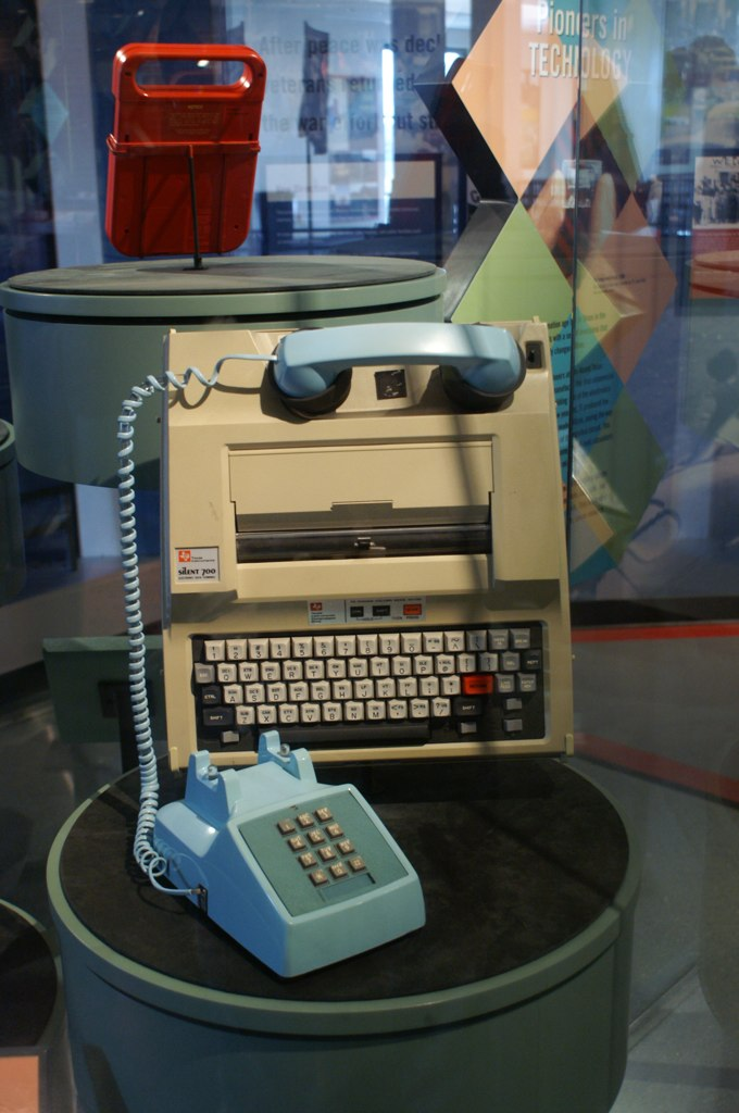 TI Silent 700 teleprinter with "acoustic coupler at the Texas State Historical Museum. The Silent 700 prints on thermal paper. This is a luggable hardcopy computer terminal. As shown, some units had a built-in modem and acoustic coupler. When this was current, modular jacks were not around, and regulations prohibited connecting anything (like a modem) directly to the phone lines."